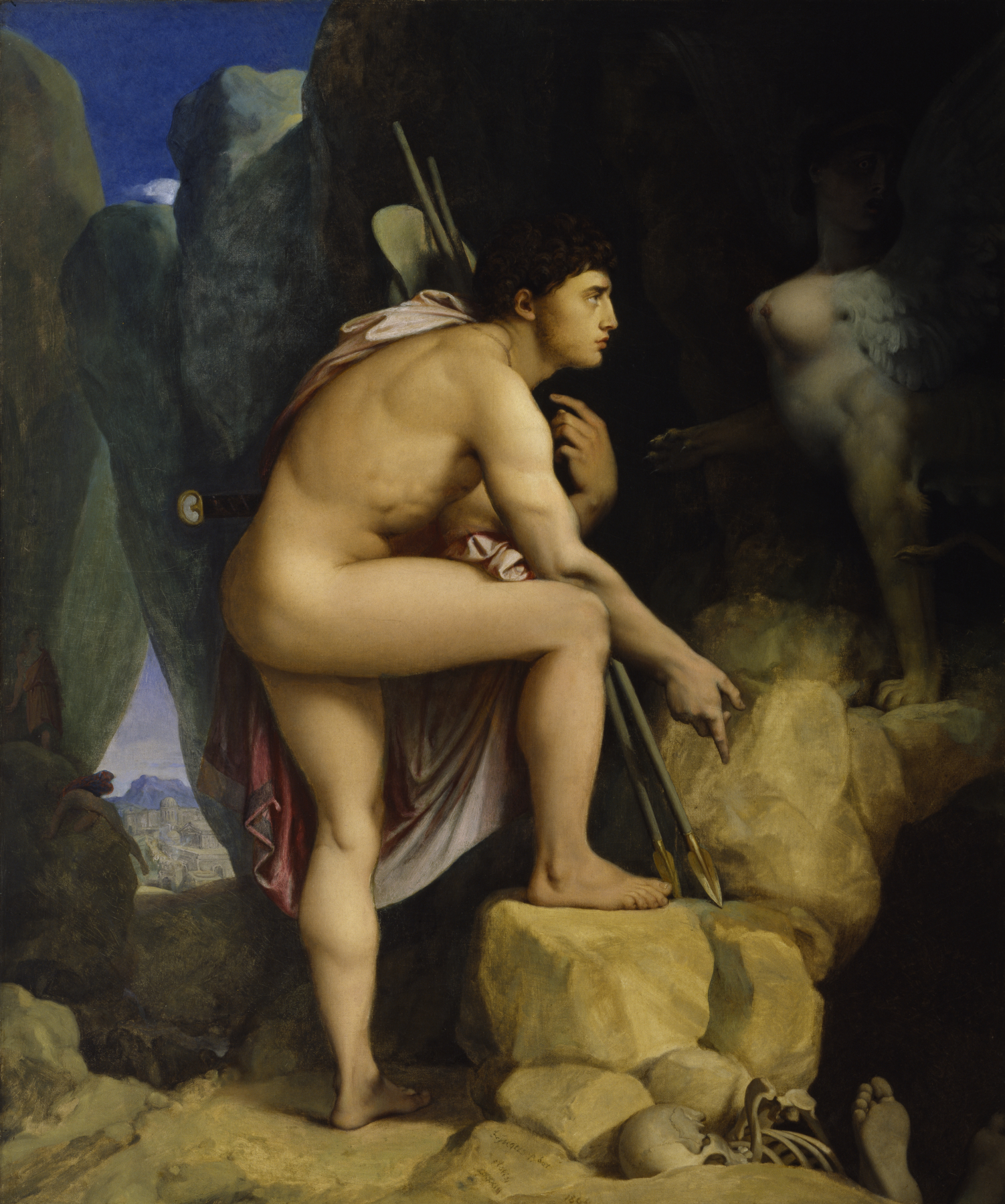 The Sphinx, a mythical creature-part lion, part woman-grimaces in horror as Oedipus solves her riddle: "What is that which has one voice and yet becomes four-footed, two-footed, and three-footed?" Oedipus replies, "Man, for as a babe he is four-footed, as an adult he is two-footed, and as an old man he gets a third support, a cane," and the Sphinx hurls herself onto the rocks below, which are strewn with the bones of her victims. Ingres, who frequently repeated the subjects of his paintings, first depicted this story at the beginning of his career and returned to it several times, making variations in the composition, such as reversing the direction in which the figures faced.